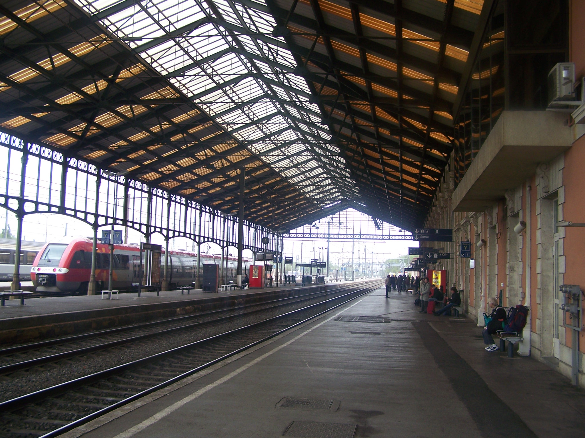 Sight to north-east of the platforms and canopy of the Narbonne 's station, in Aude, France.